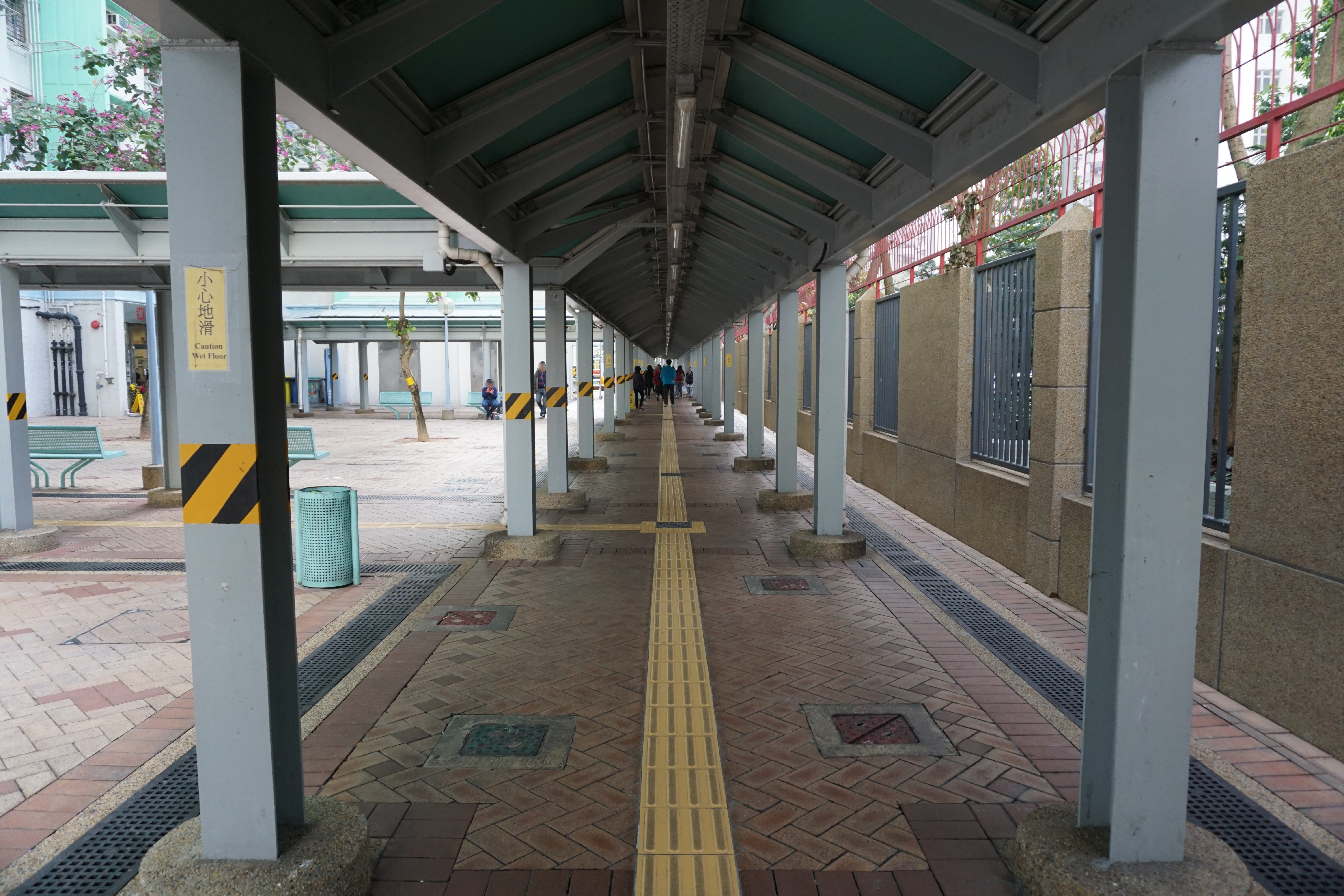 Tin Heng Estate in Tin Shui Wai, Hong Kong.